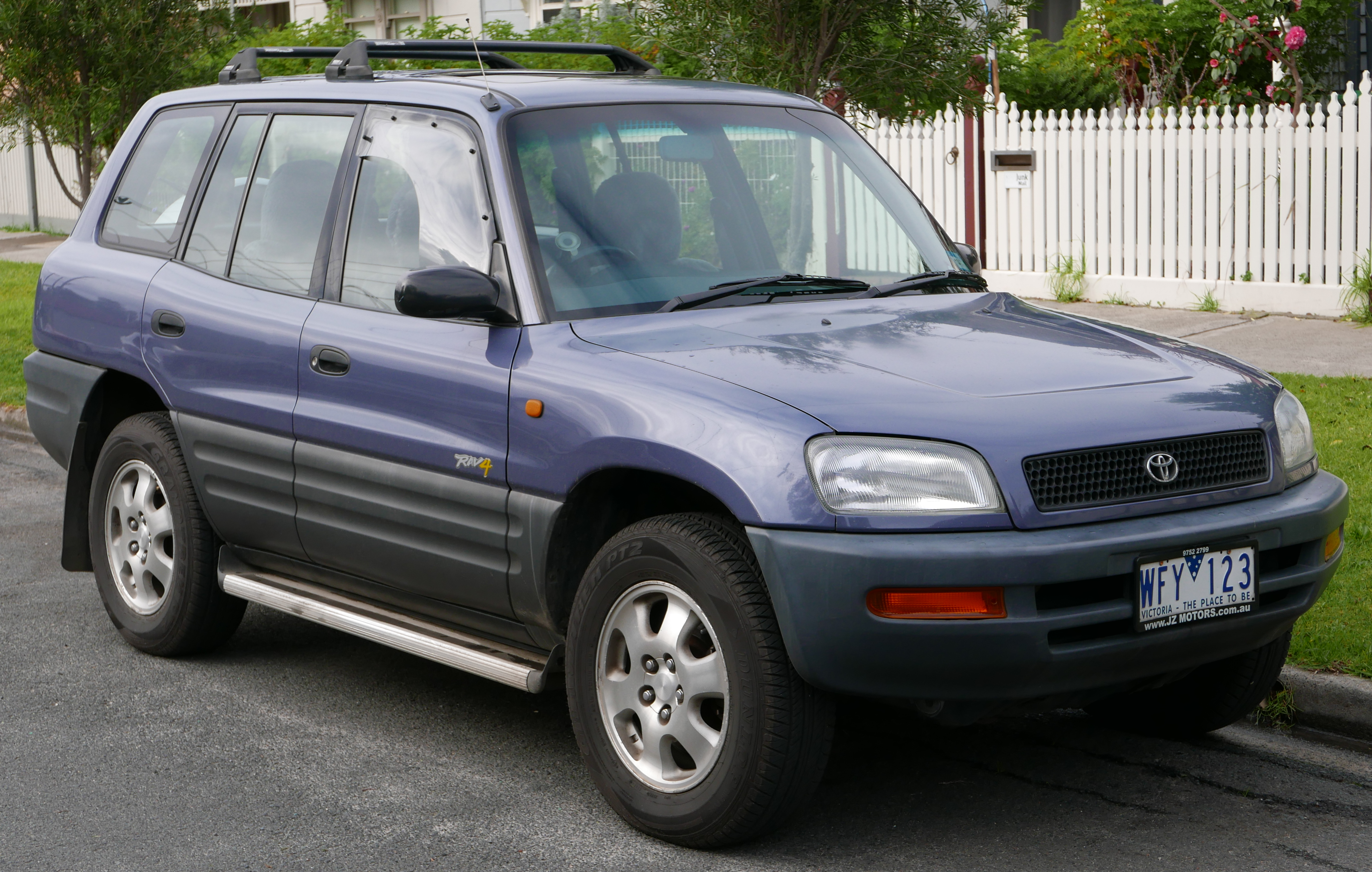 1995 Toyota RAV4 (SXA11R) Cruiser wagon. Photographed in Northcote, Victoria, Australia. Vehicle registration enquiry results Jurisdiction Victoria Registration WFY123 Chassis code JT772SC1100050682 Engine code 3S1972424 Compliance date 1995-10 Year of manufacture 1995